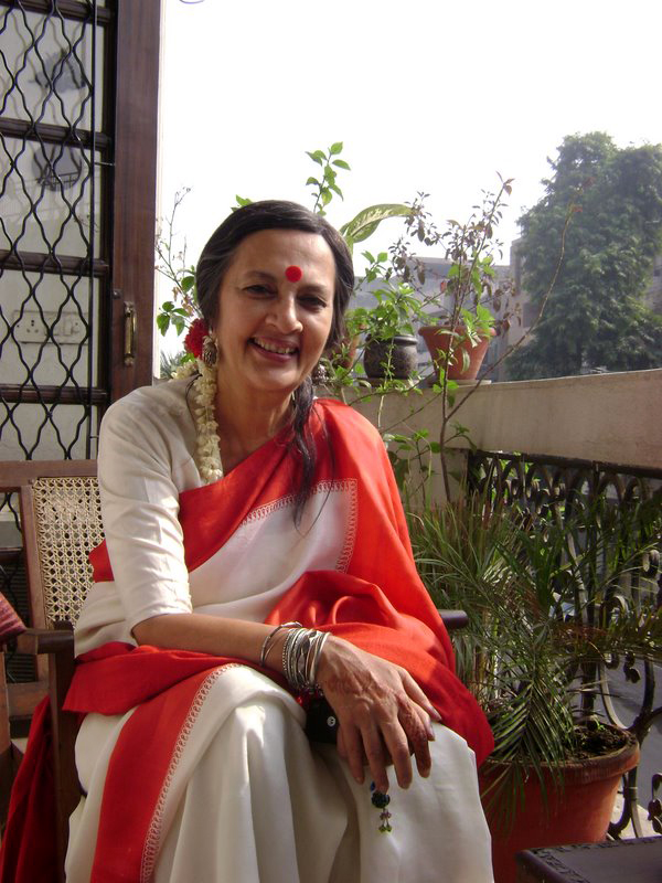 Indian politician Brinda Karat in January 2009